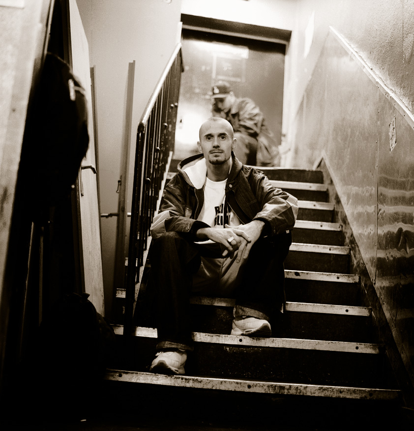 Grosse Freiheit Hamburg 1999